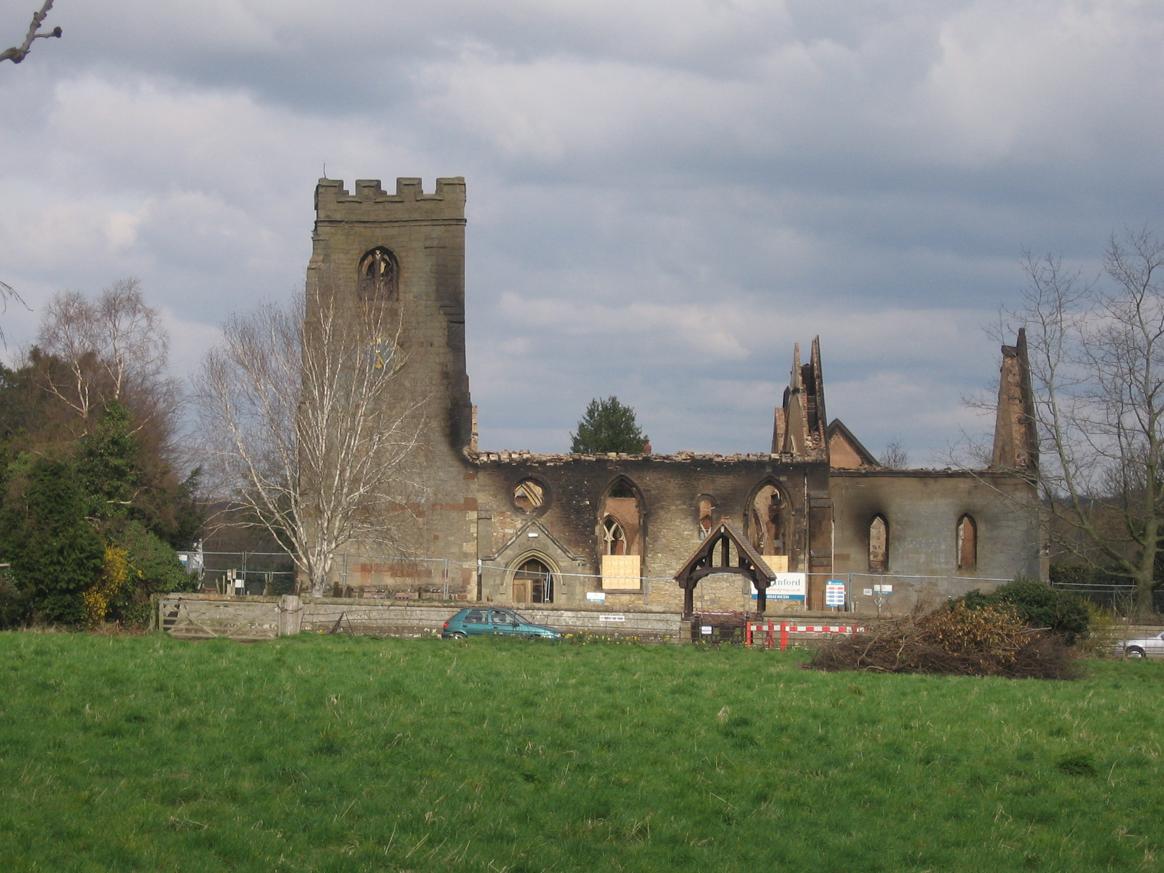 The ruin of St Nicholas' parish church, Radford Semele, Warwickshire, seen from the south three days after it was gutted by fire on 16 March 2008